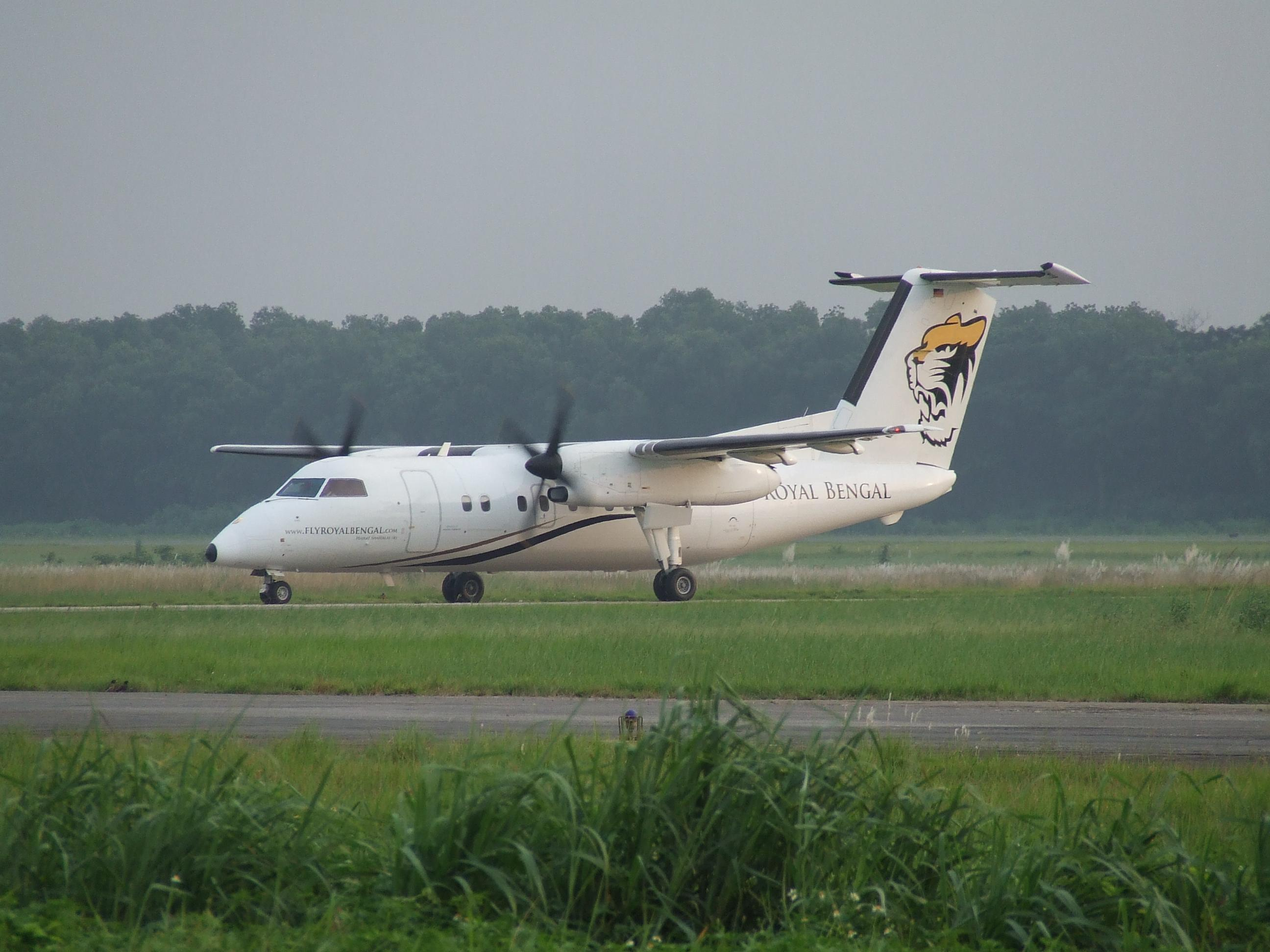 A Royal Bengal Airline Bombardier Dash 8-102 taxiing at Hazrat Shahjalal International Airport, Bangladesh